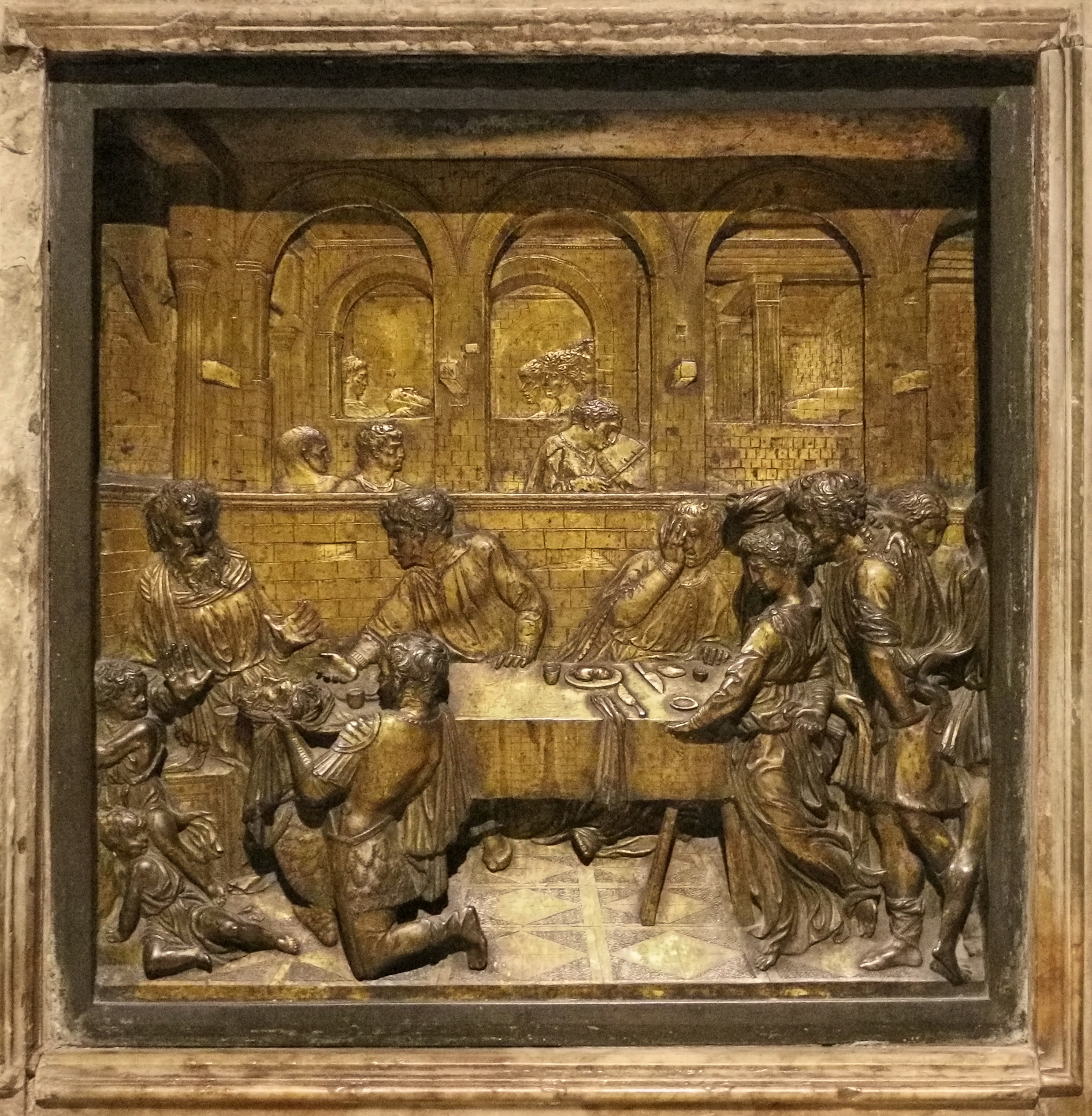 Donatello on the Baptismal font of the Siena Baptistry